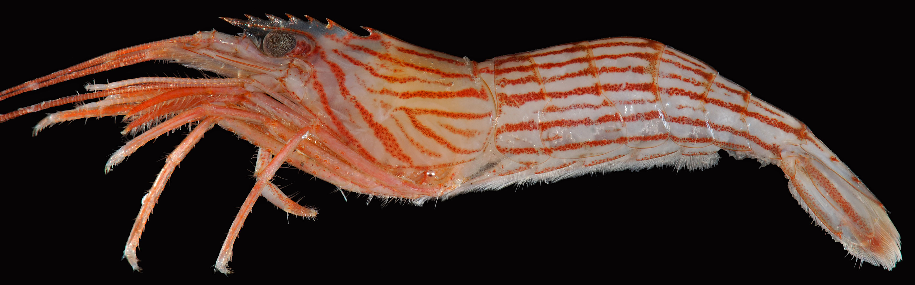 Photo by Robert Aguilar, Smithsonian Environmental Research Center.